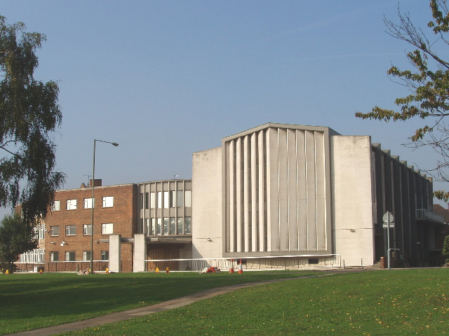 Finchley United Synagogue, London N3, seen from the southeast. The buildings seats 1,350 people. Built in 1967 to replace one built in 1935. At the junction of Kinloss Gardens and Charter Way , by the junction of the A598 and A406 roads.